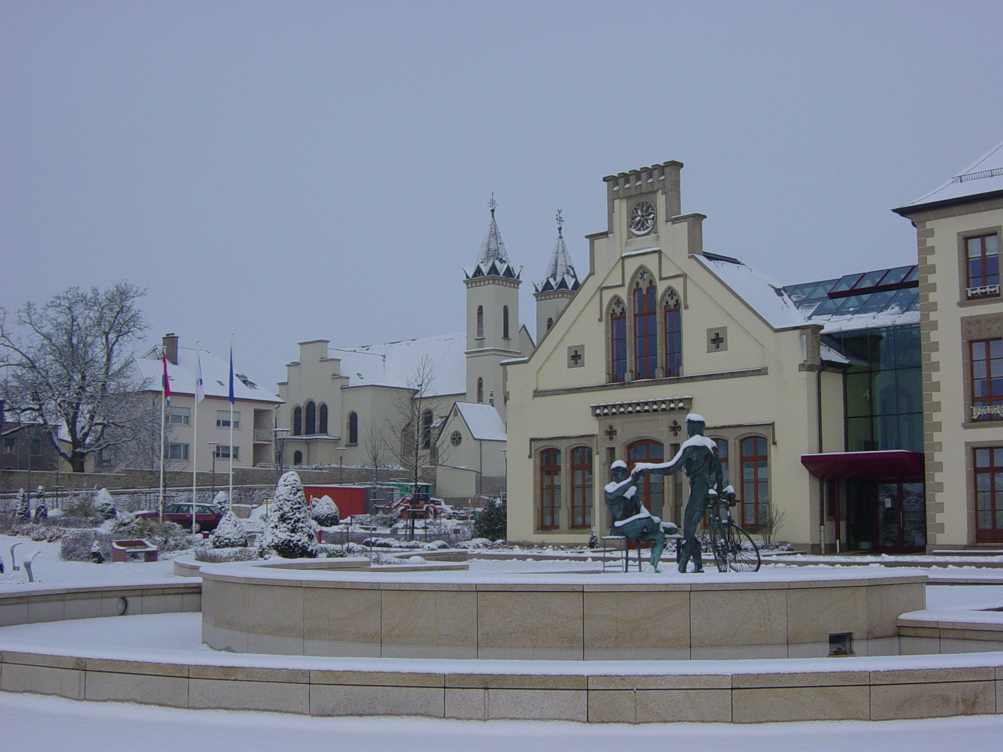 Mamer, Luxembourg, with a sprinking of snow Author Ipigott